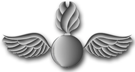 US Navy Aviation Ordnanceman (AO). A winged flaming spherical shell.